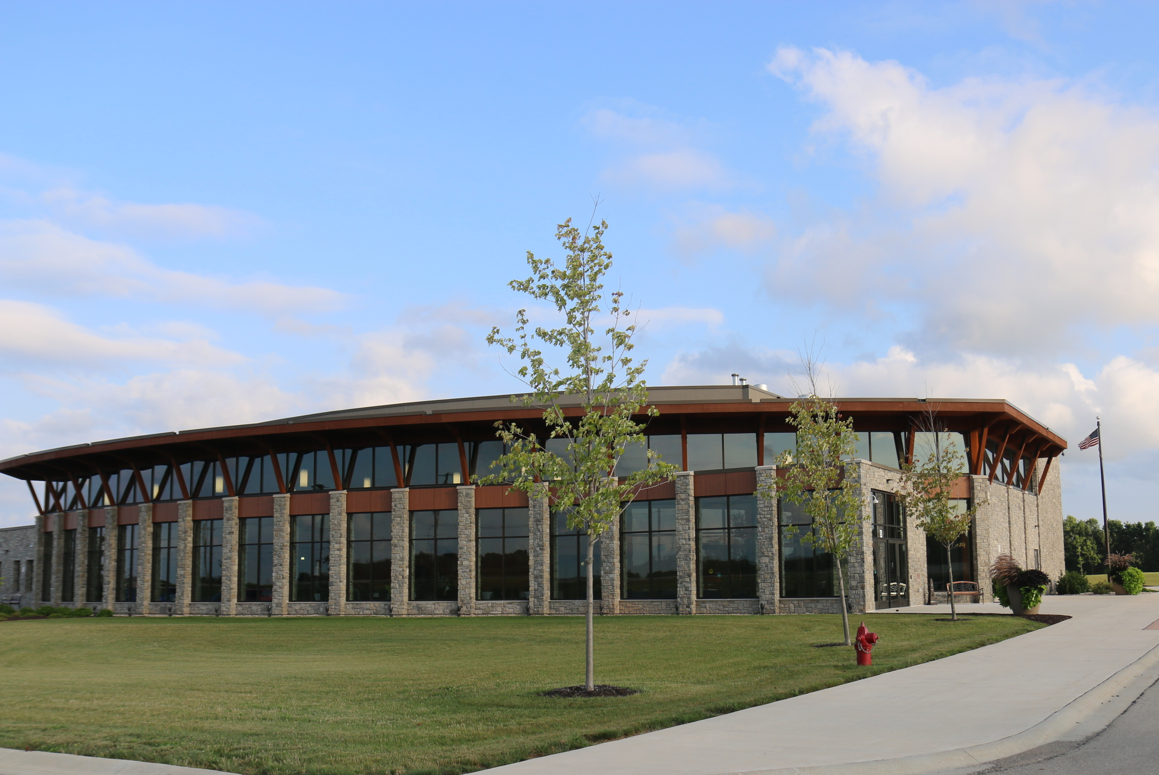 The Franciscan Music Center building at Silver Lake College.